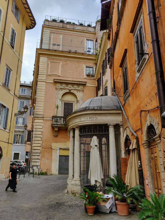 Area of the Jewish Ghetto of Rome (Italy)